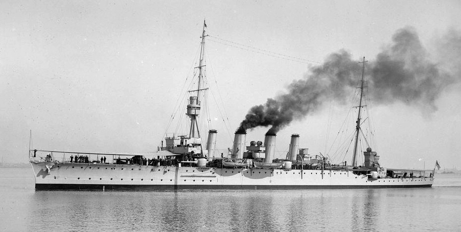 HMS Chatham